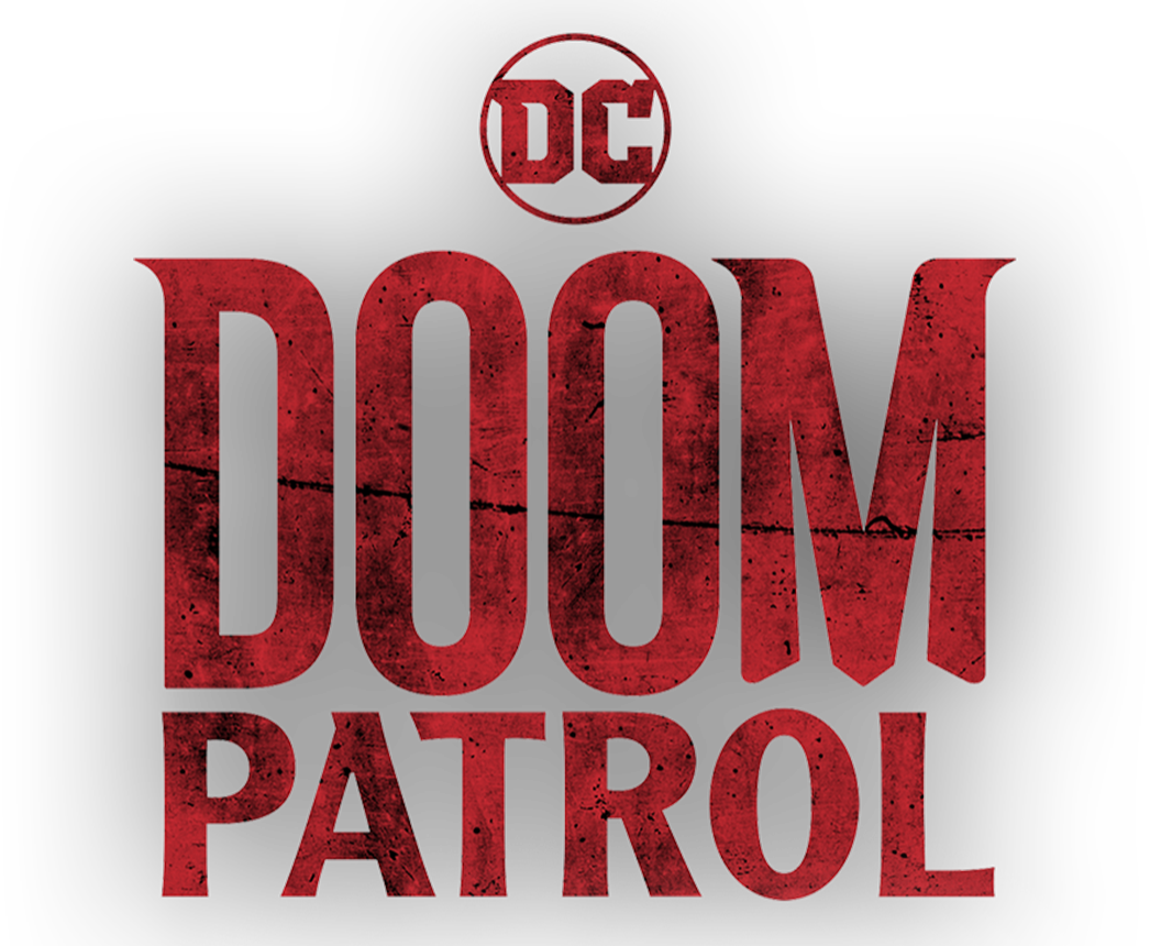 Logo series